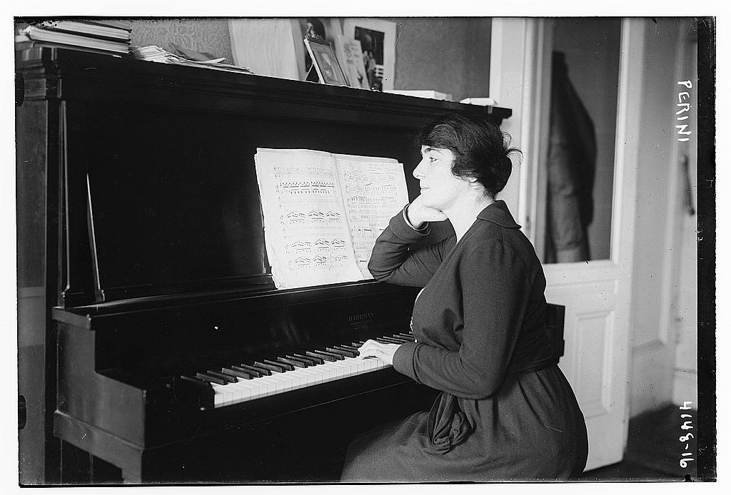 Flora Perini seated at piano.